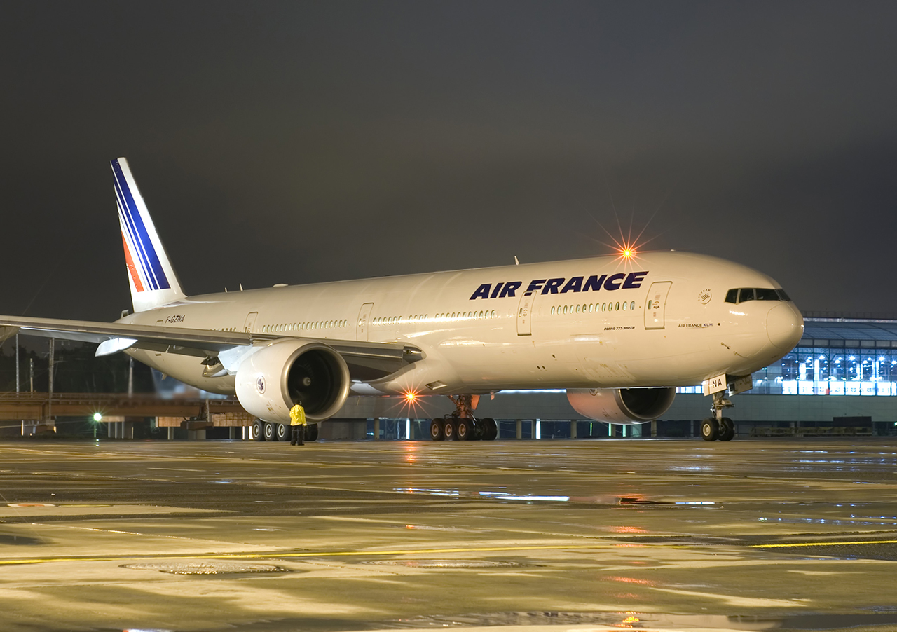 В-777 "Air France" rare type of the plane in Sheremetyevo. (I have seen only time).Landing because of heart attack of the stewardess.